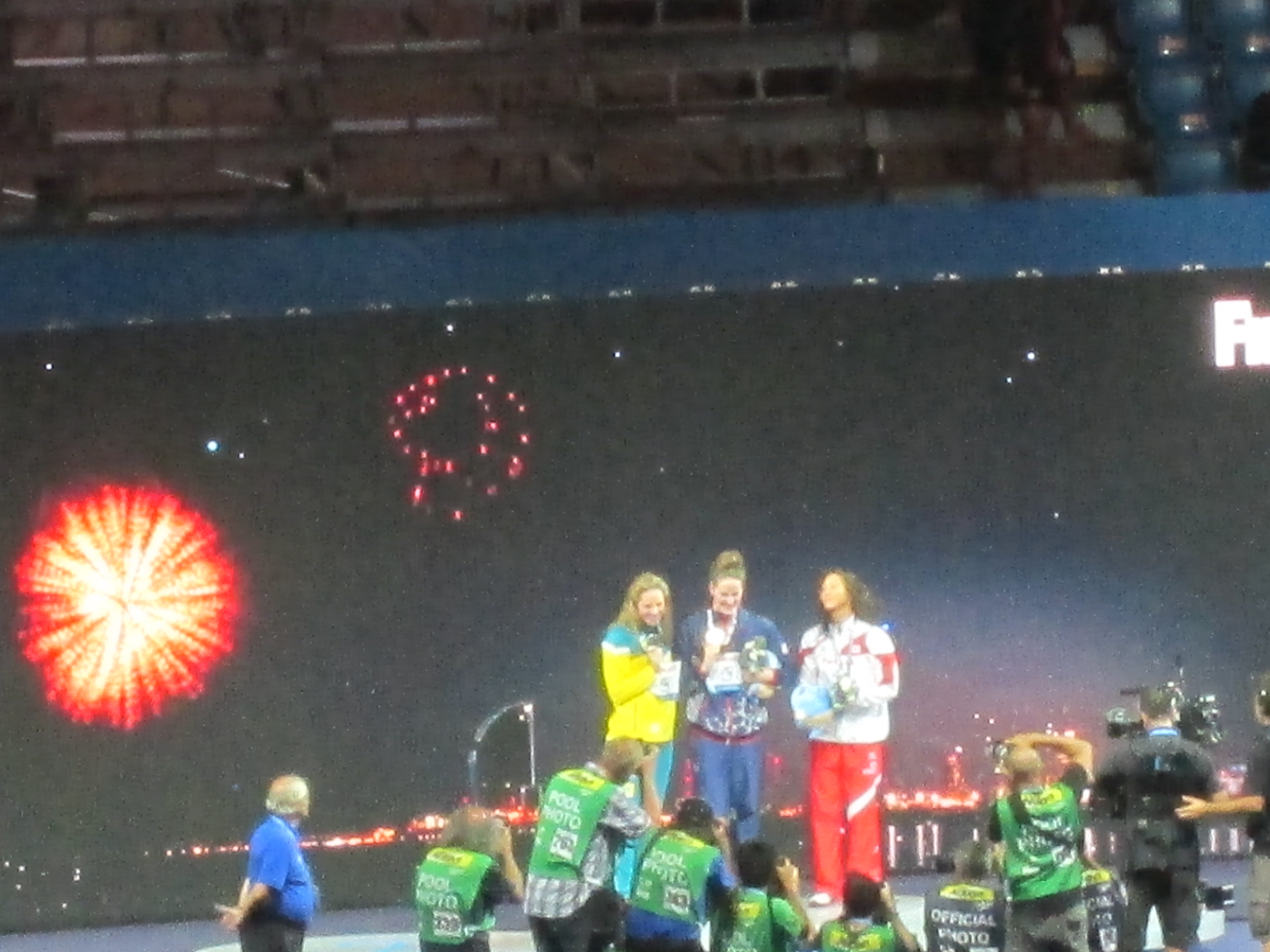 missy franklin gold medal barcelona 2013